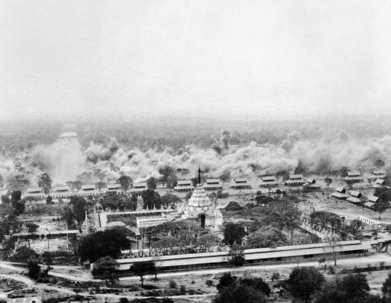 The War in the Far East- the Burma Campaign 1941-1945 The Campaign in Mandalay February - March 1945: An aerial view of Fort Dufferin at Mandalay under aerial attack.